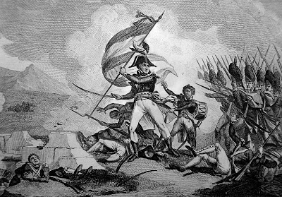 colonel Jean Lannes at the battle of Bassano (1796)